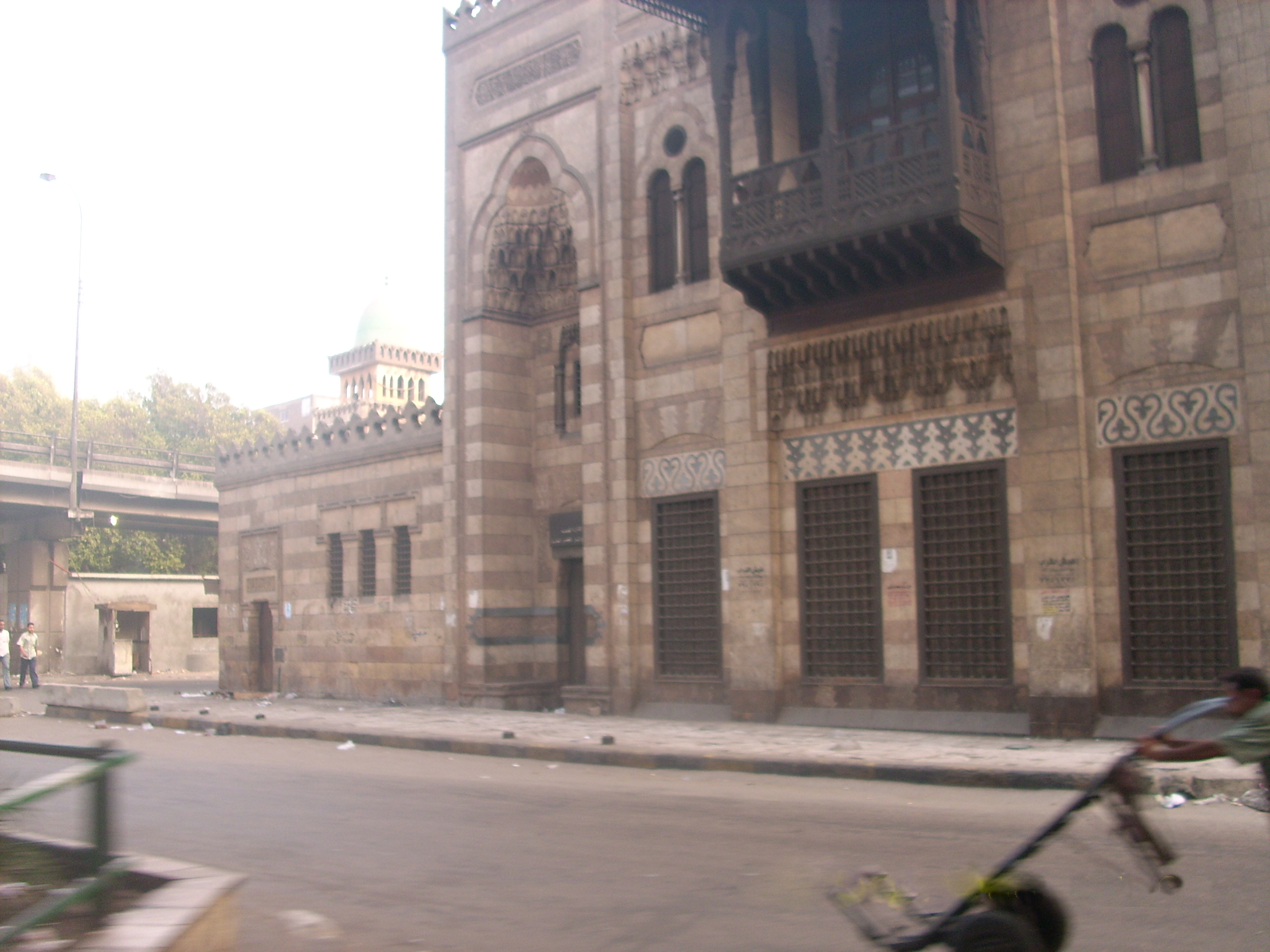 Islamic monuments adminstration - Port Said st - Azhar st - Cairo